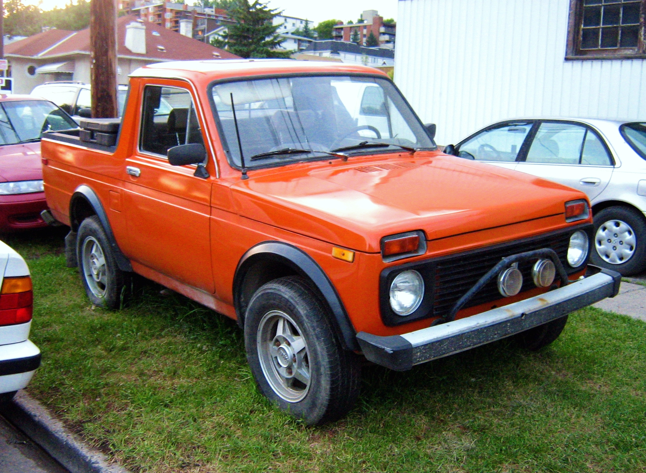 A Lada Niva Truck - very rare. I've only ever seen this one. Its the second time I've spotted it. Apparently its in for some work to be done but may go up for sale soon. I talked to one of the guys at the shop and it used to be white in colour. It was originally new at this place (it was a Lada dealer and they still bring in parts).